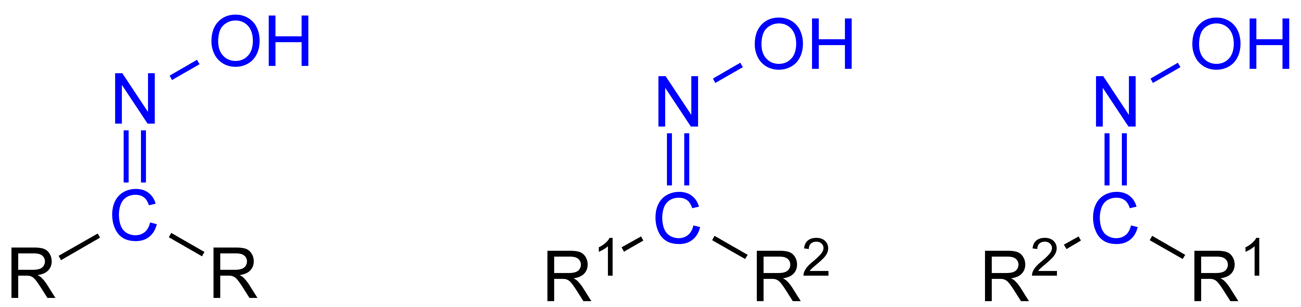 general structure of ketoximes including (E)/(Z)-isomerism